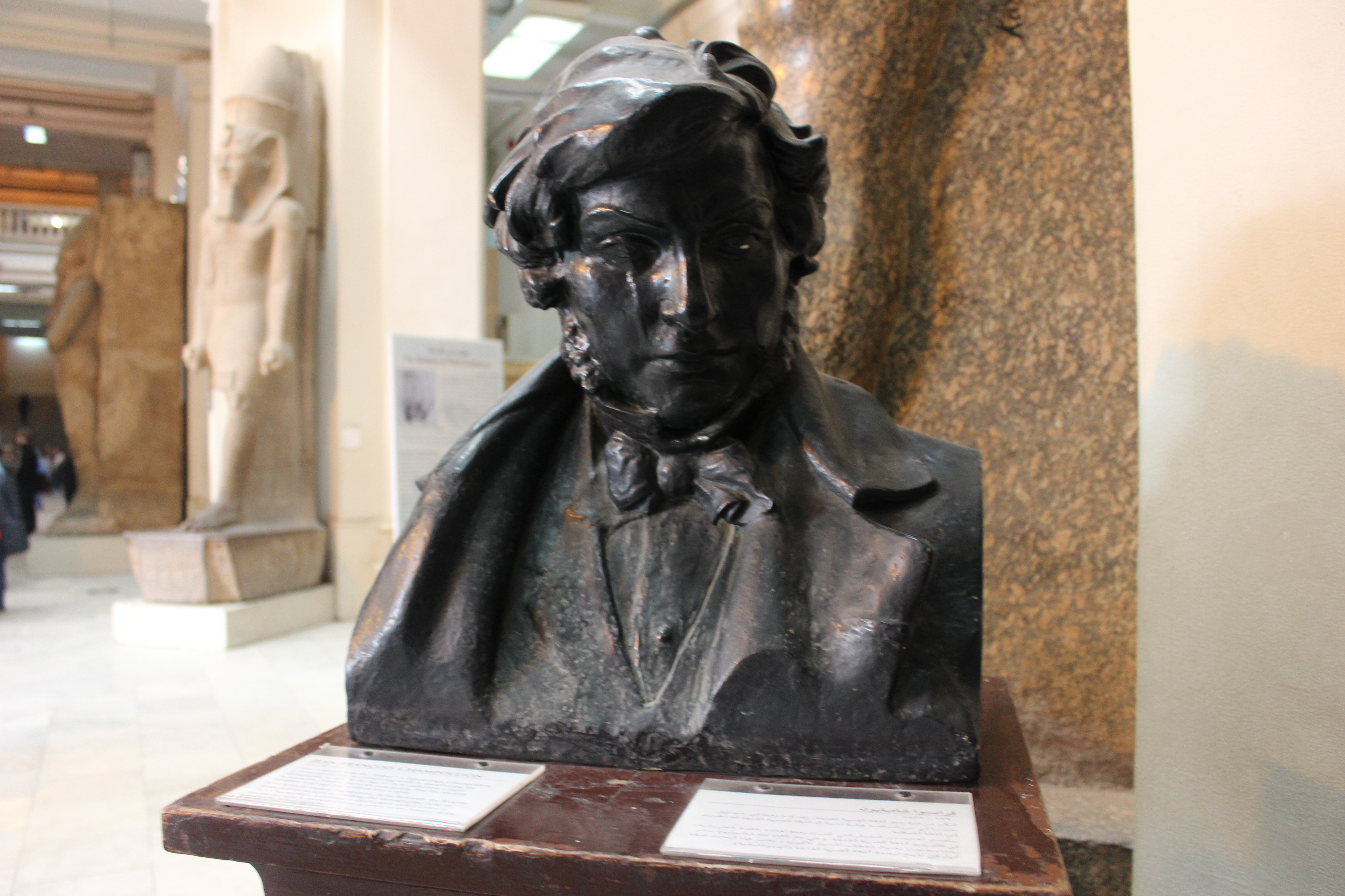 François Champollion's Statue at Egyptian Museum in Cairo, Egypt.)